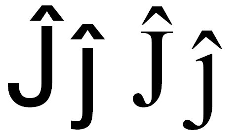 Latin_letter_Ĵĵ.